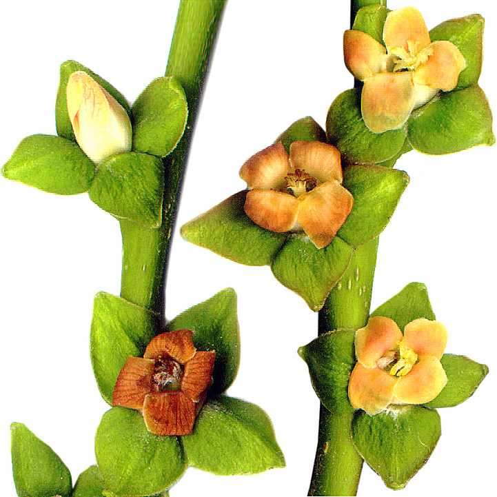 Female flowers of Diospyros lotos